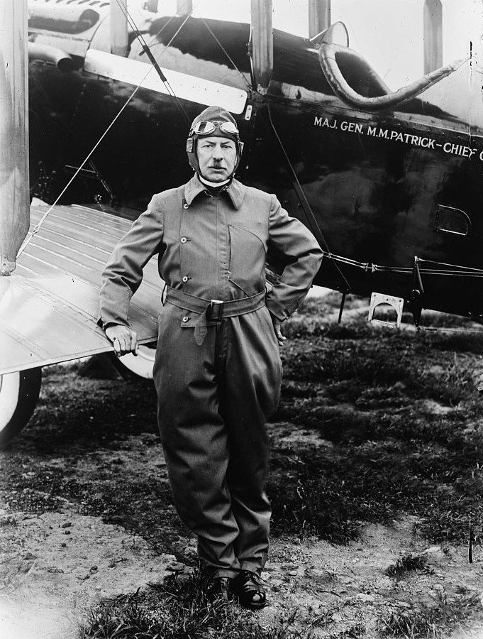 Mason Patrick, in pilot gear standing in front of plane